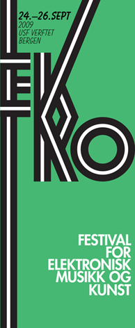 Official Ekko-TAG